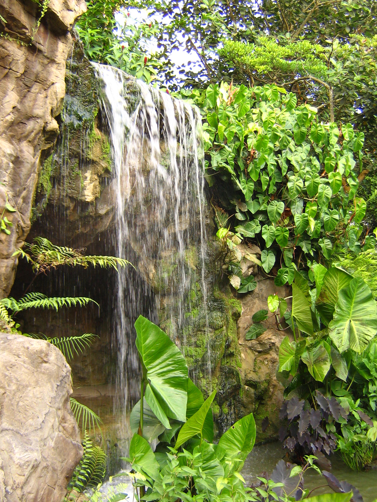 Waterfall in the Singapore Botanic Gardens